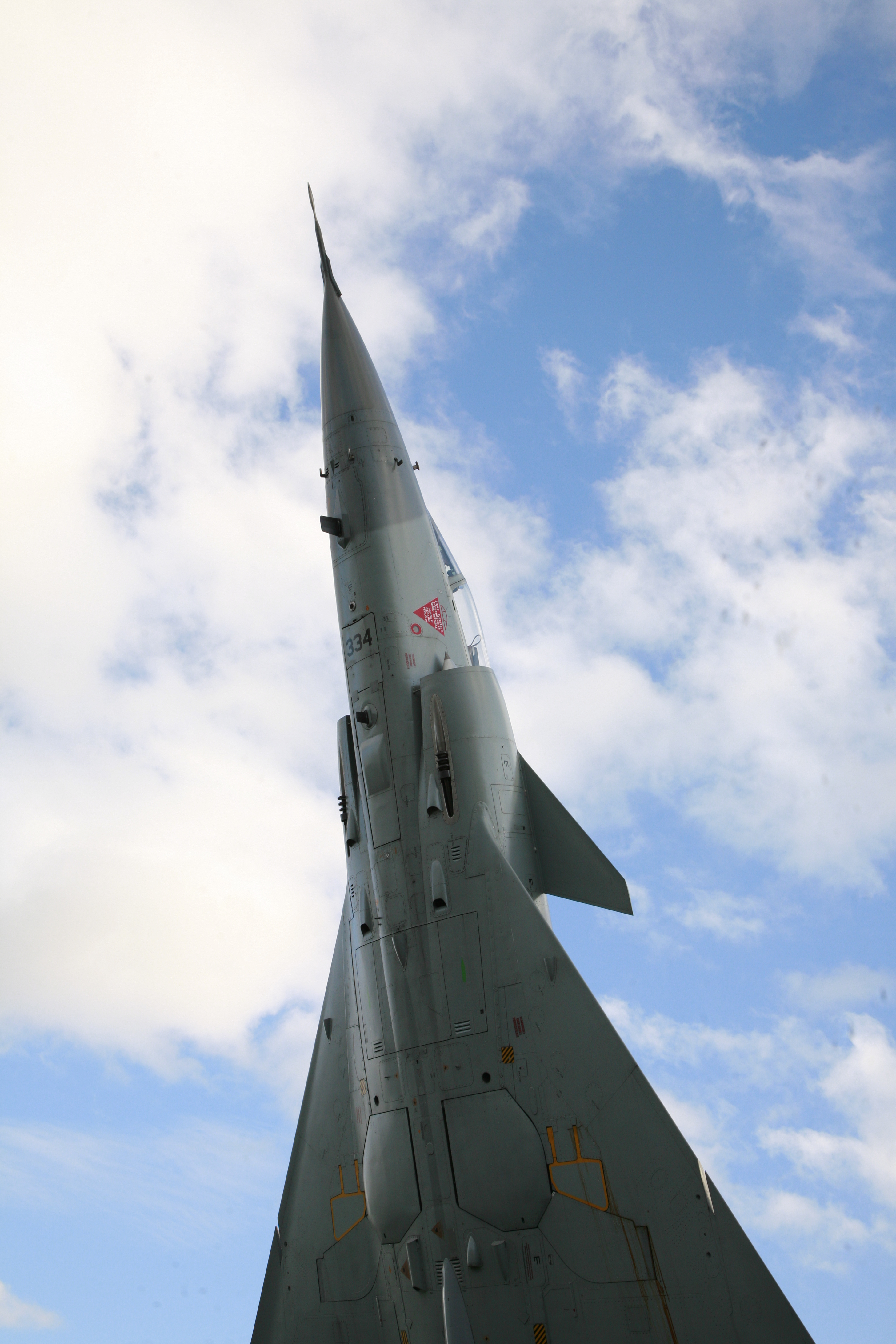 Dassault Mirage III of the Swiss Air Force, on display at Payerne Airbase.